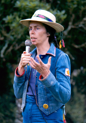 Ina May Gaskin at Nambassa 3 day Music & Alternatives festival, New Zealand 1981. Image (photograph) taken by Official Nambassa Photographer and uploaded by User:Mombas, Nambassa dot com Terms of Use: 1/ All users of this image are required to attribute this work to "Nambassa Trust and Peter Terry" and the URL: " " is to accompany all use. 2/ Attribution. You must attribute the work in the manner specified by the author or licensor. 3/ For any reuse or distribution, you must make clear to others the license terms of this work. Statement by Nambassa Trust and Peter Terry